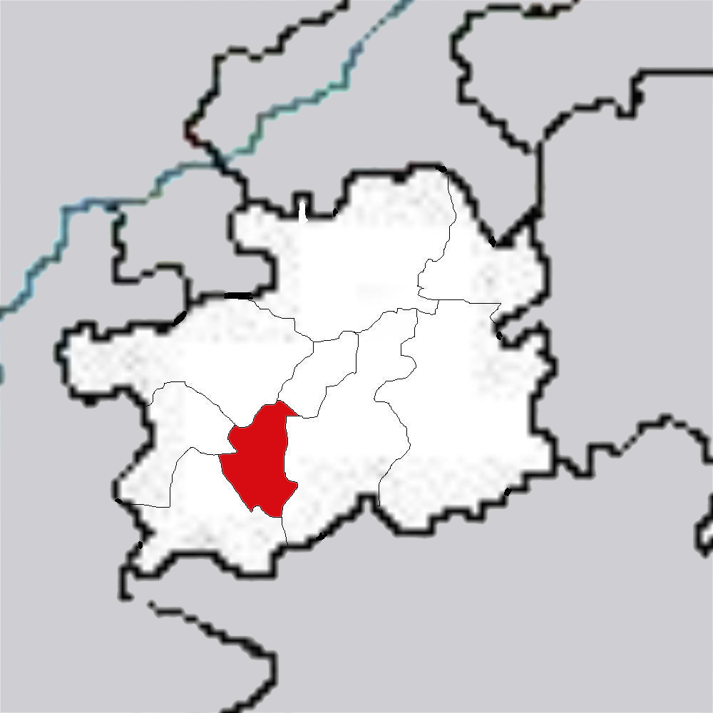 Maps of Guizhou Province, China.